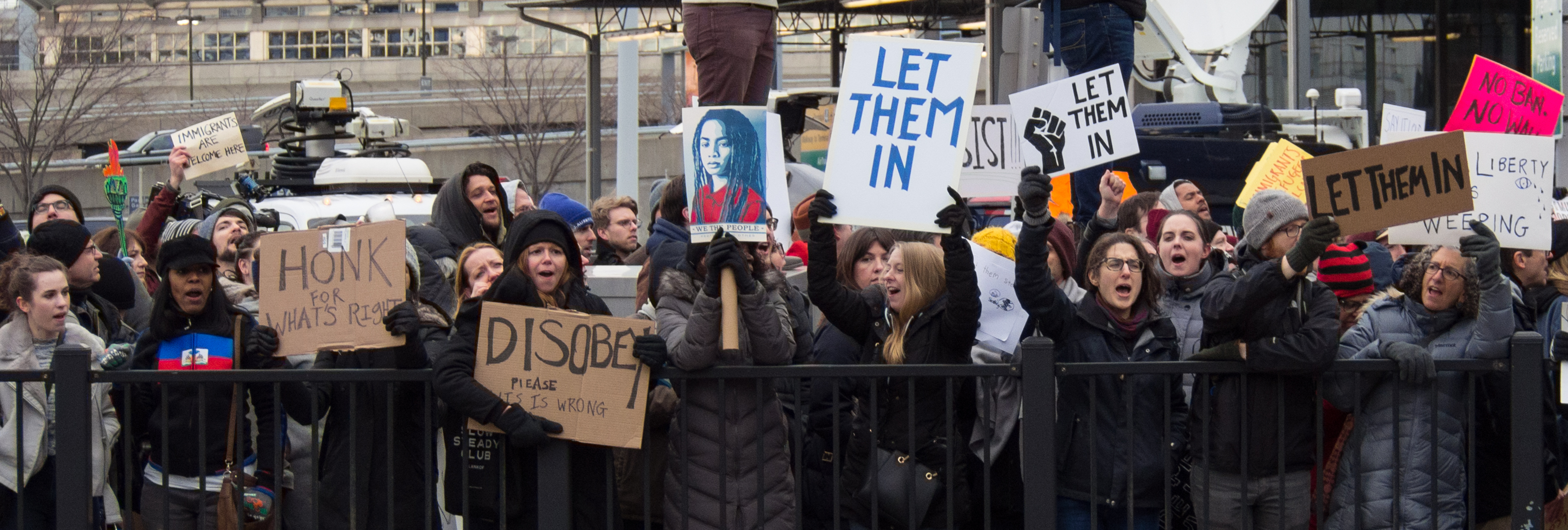 Protest at John F. Kennedy International Airport (JFK), Terminal 4, in New York City, against Donald Trump's executive order signed in January 2017 banning citizens of seven countries from traveling to the United States (the executive order is also known as "Protecting the Nation from Foreign Terrorist Entry into the United States").